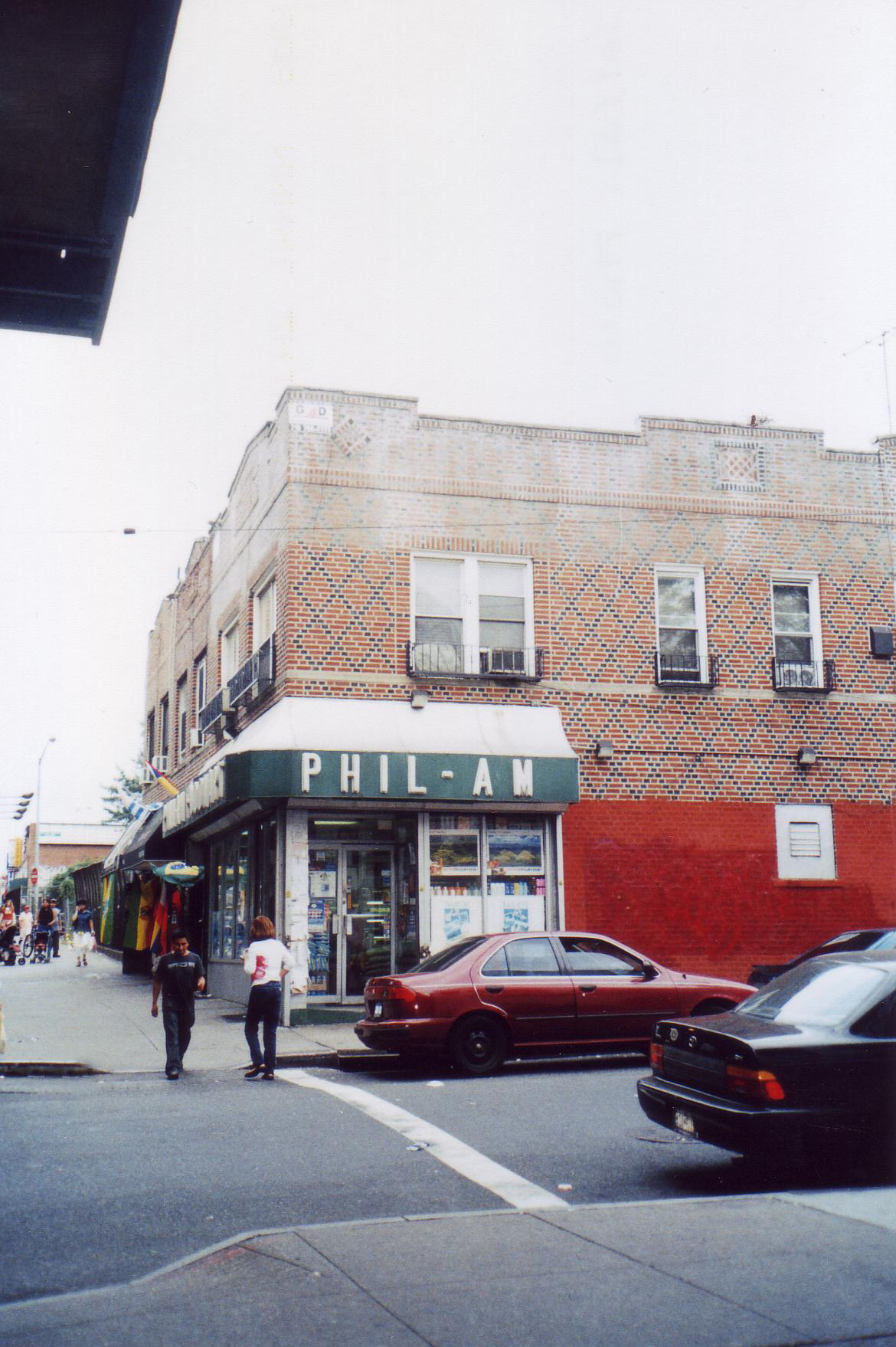 (Original text: Phil-Am Grocery Store, "Little Manila", Roosevelt Avenue, Woodside, Queens, New York.)